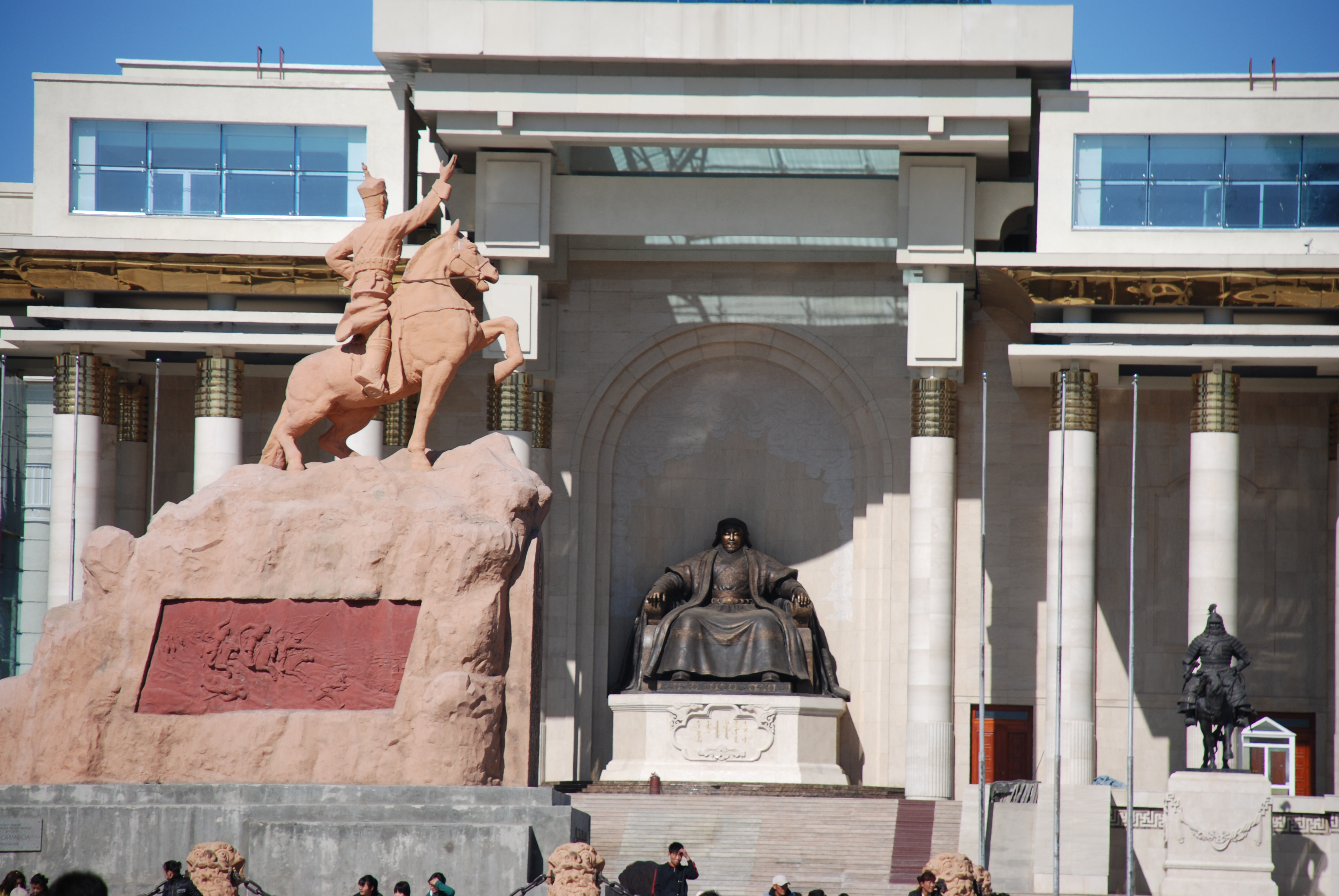 Square in Ulan Bator.